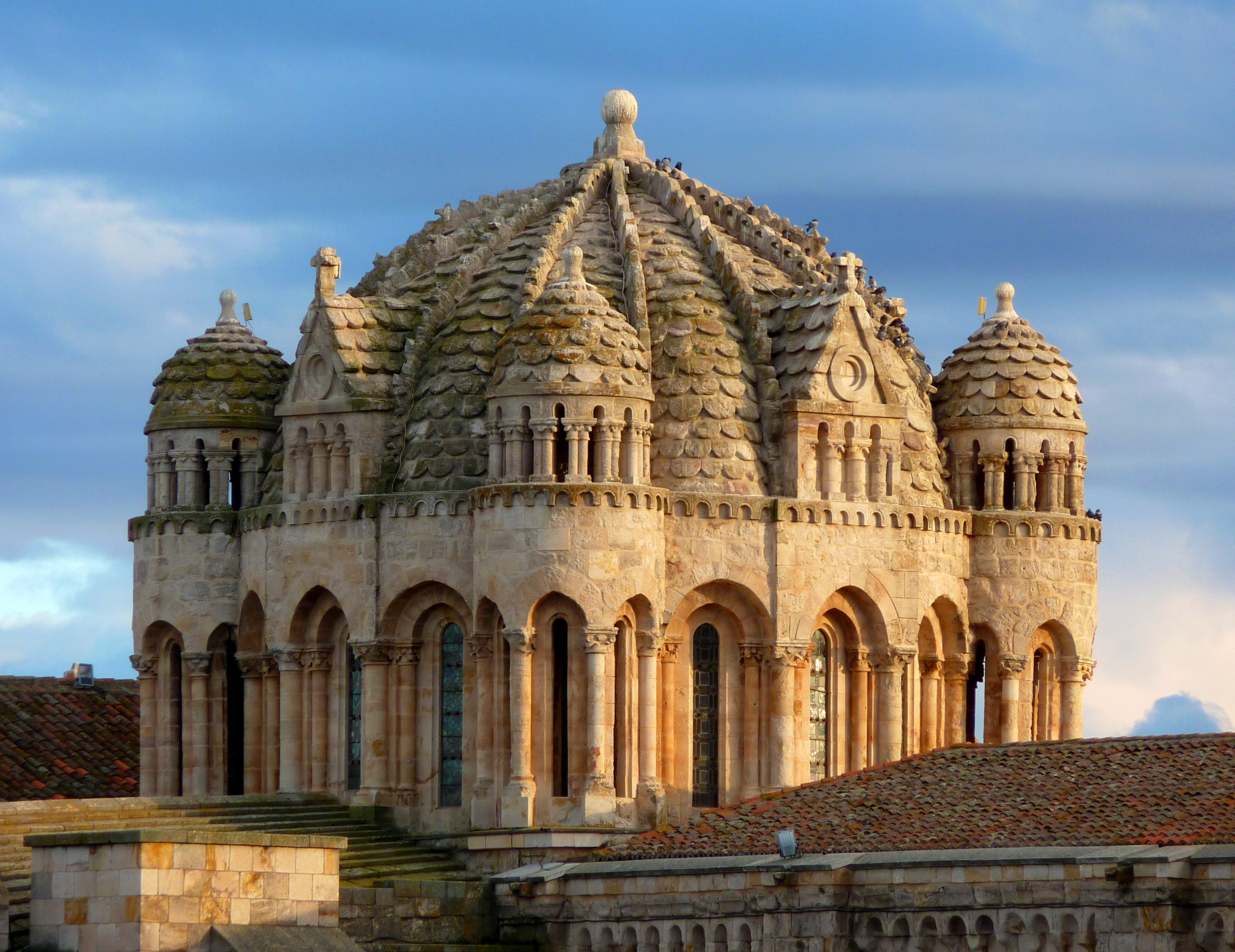 Dome of the Cathedral of Zamora (Spain). Cathedral of Zamora Native nameCatedral del Salvador de ZamoraLocationZamora, (Spain)Coordinates41° 29′ 56.33″ N, 5° 45′ 16.7″ W Established12th-centuryWeb page control : Q2942864 VIAF: 124365334 LCCN: n82222244 BIC: RI-51-0000060 BNE: XX96671 JCyL: 17286 WorldCat institution QS:P195,Q2942864